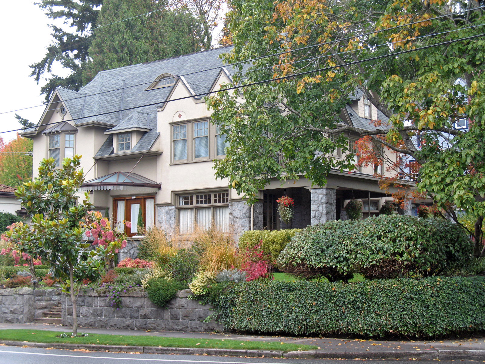 National Register of Historic Places listings in Northeast Portland, Oregon. James C & Mary A Costello House, 2043 NE Tillamook St, Portland, OR. Photographed October 25, 2009 from the south side of NE Tillamook St. at the intersection of NE 21st Ave.